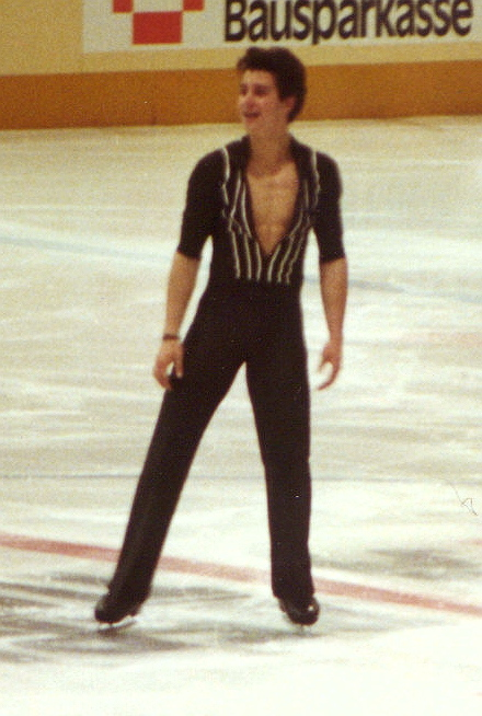 Christoper Bowman at the ISU-show 1989 in West-Berlin